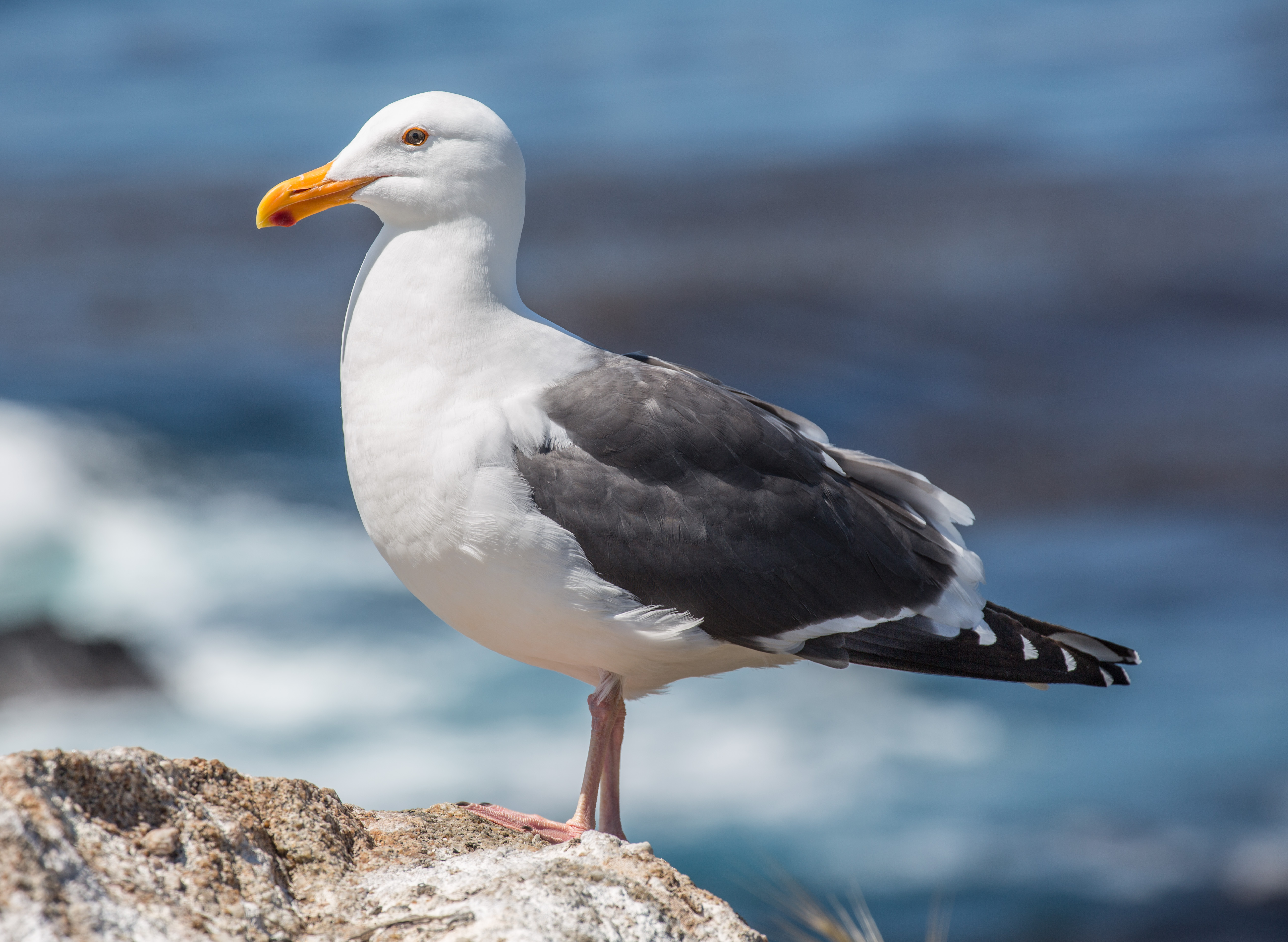 A Larus occidentalis, or Western Gull, at Point Lobos State Reserve near Monterrey, California, United States.